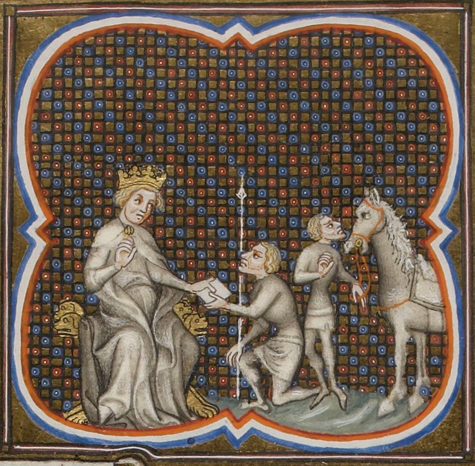 Henry I, king of Cyprus